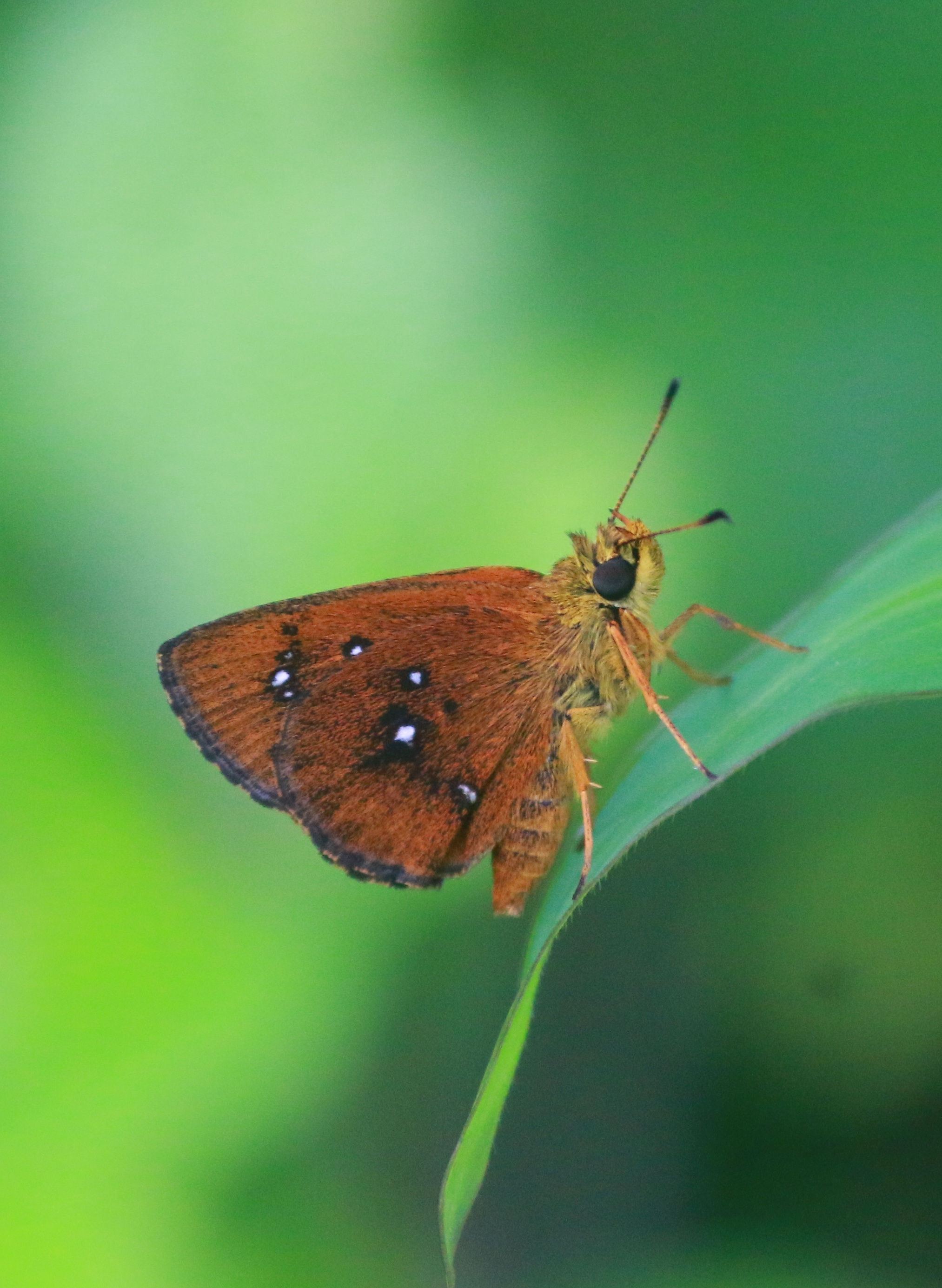 Chestnut Bob butterfly from koottanad Palakkad District Kerala